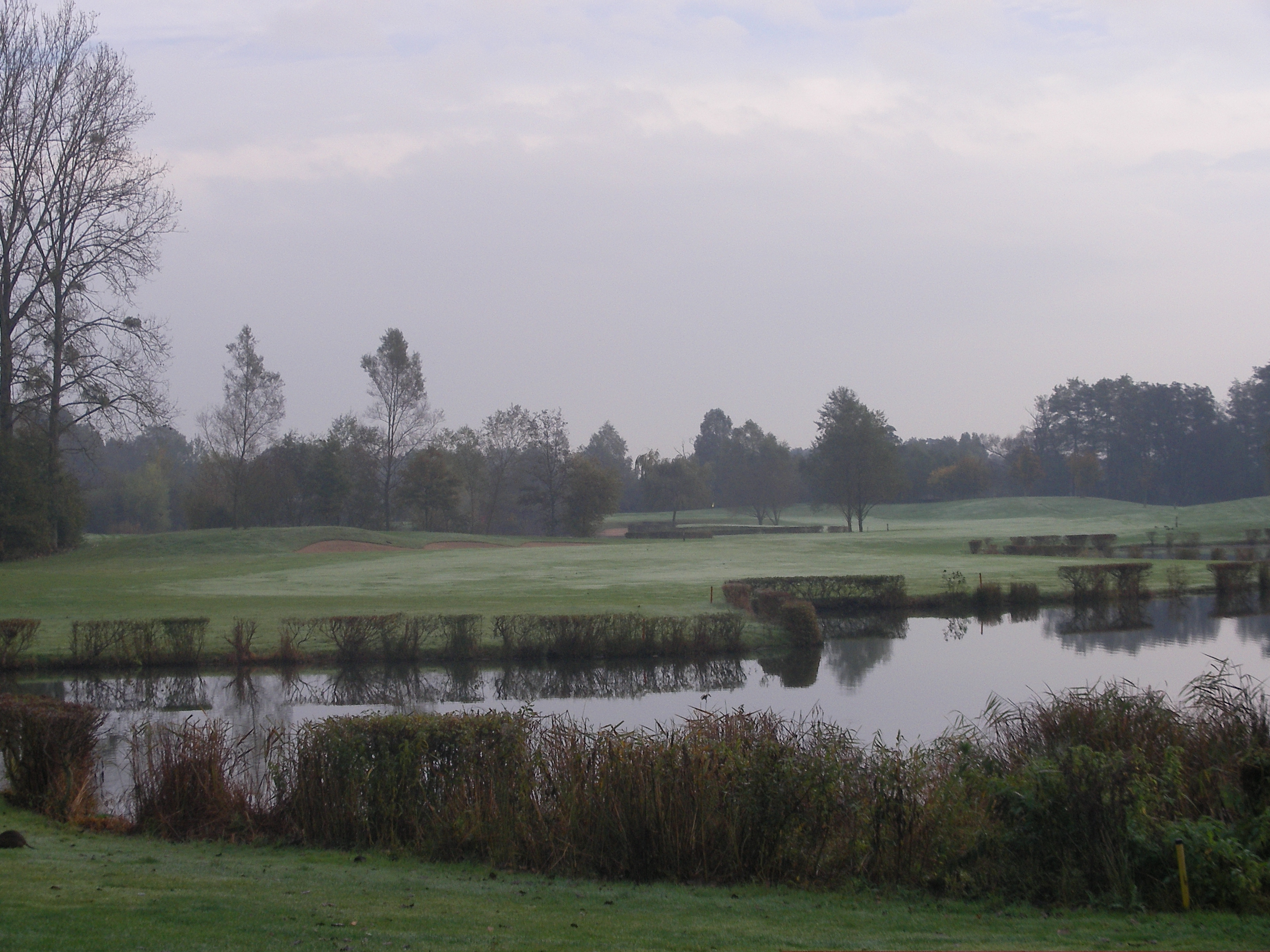 6th Tee, Soufflenheim Golfclub, France